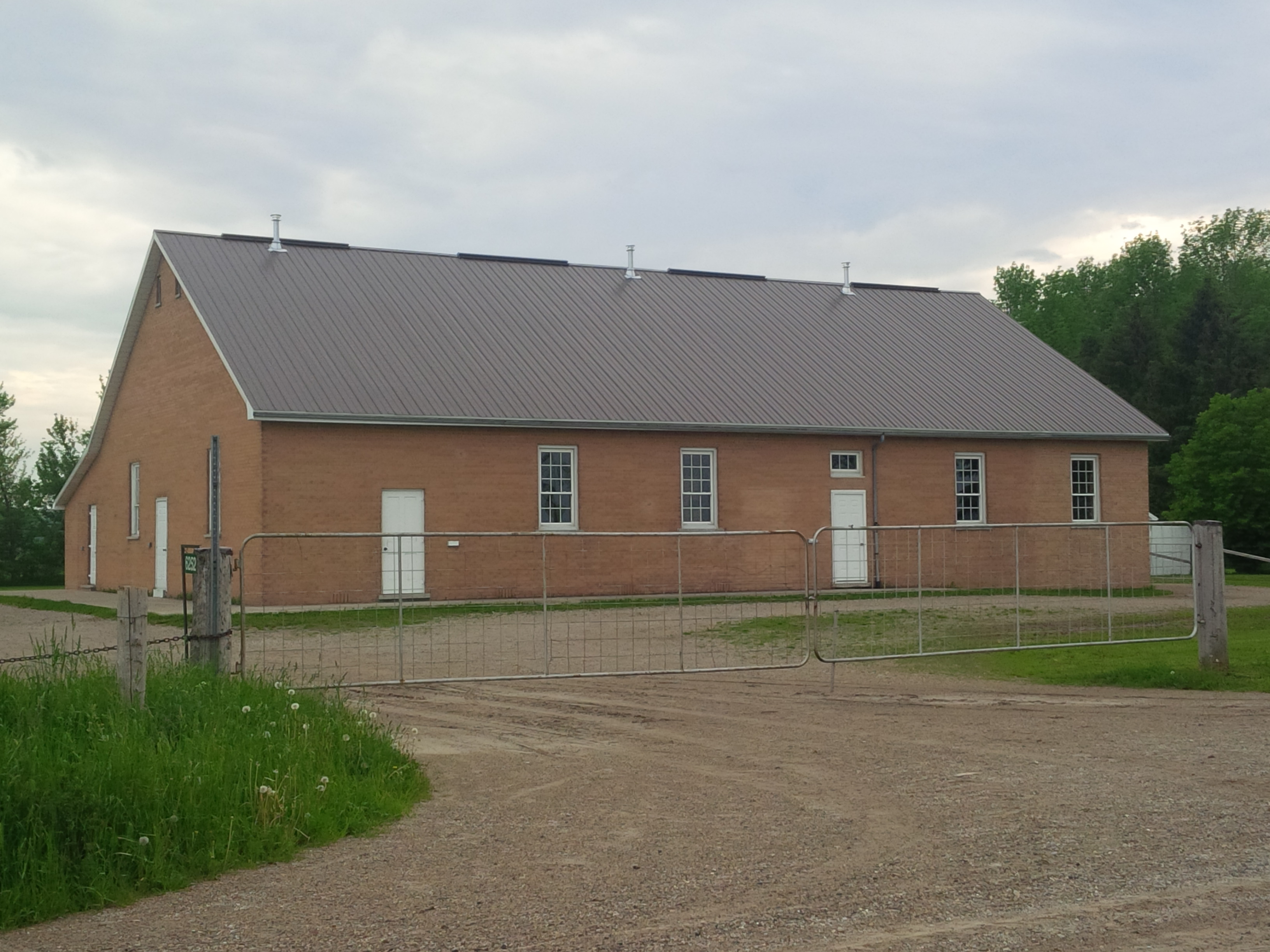 Brick Mennonite Meeting House